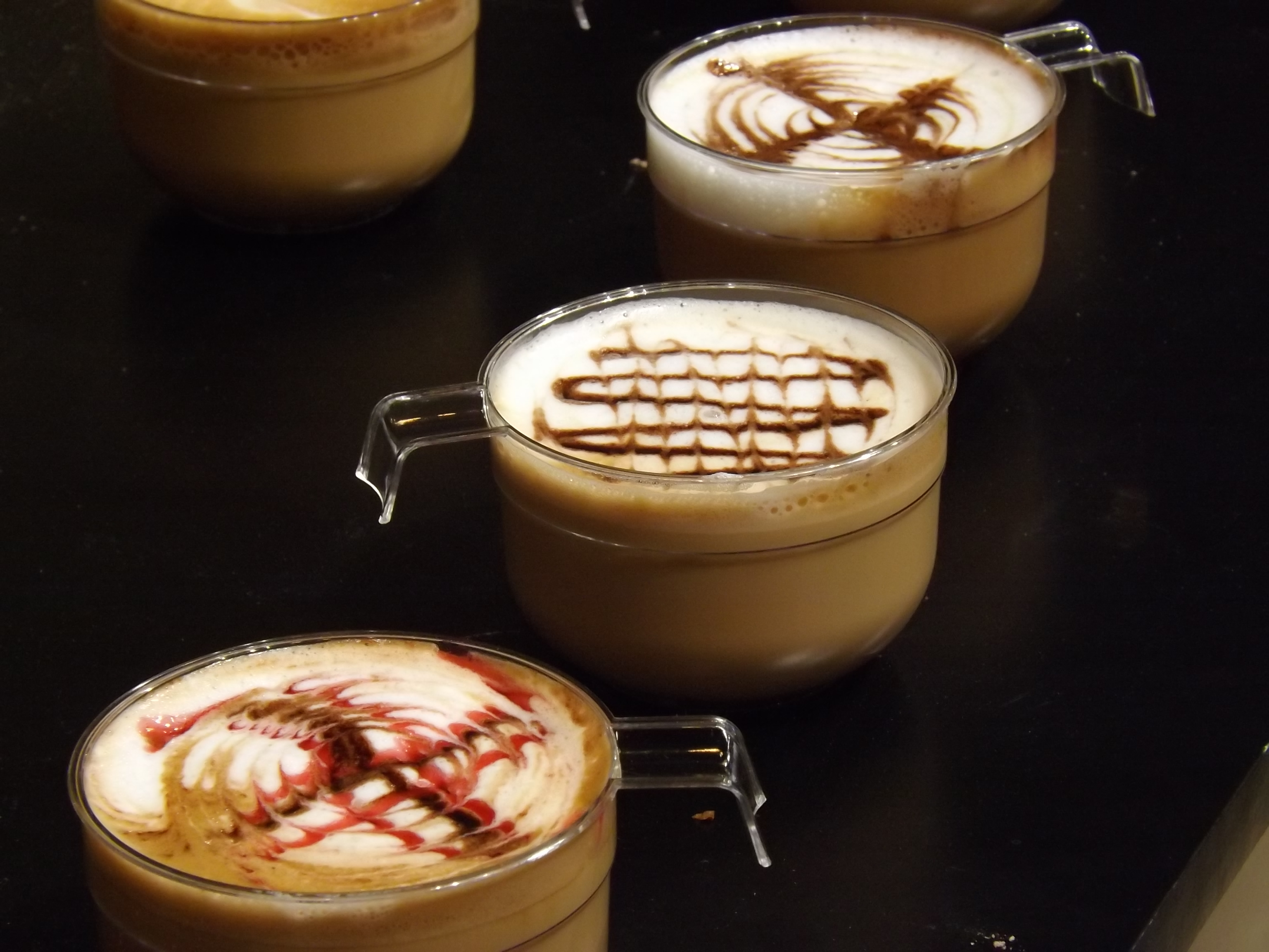 Three plastic cups of Capuccino with different figures made out of brown or red topping.